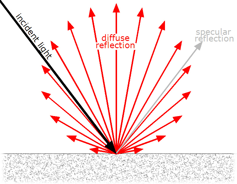 Diffuse and specular reflection from a glossy surface, e.g. polished marble. - better gif version in File:Lambert2.gif